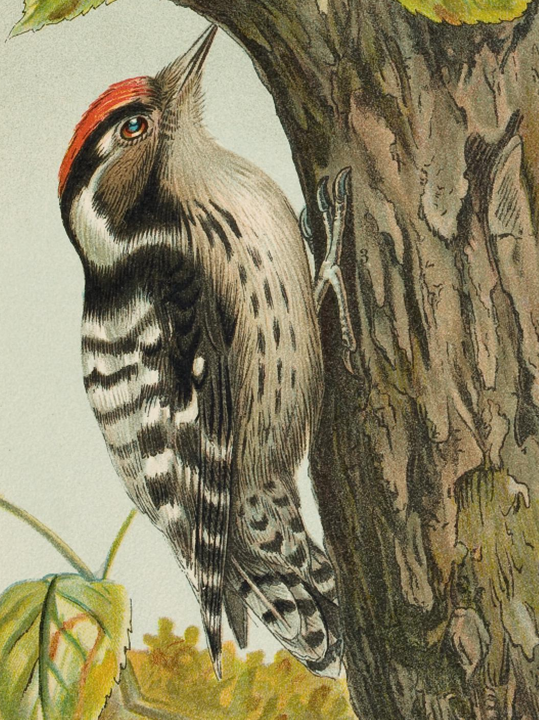 Male of Lesser Spotted Woodpecker